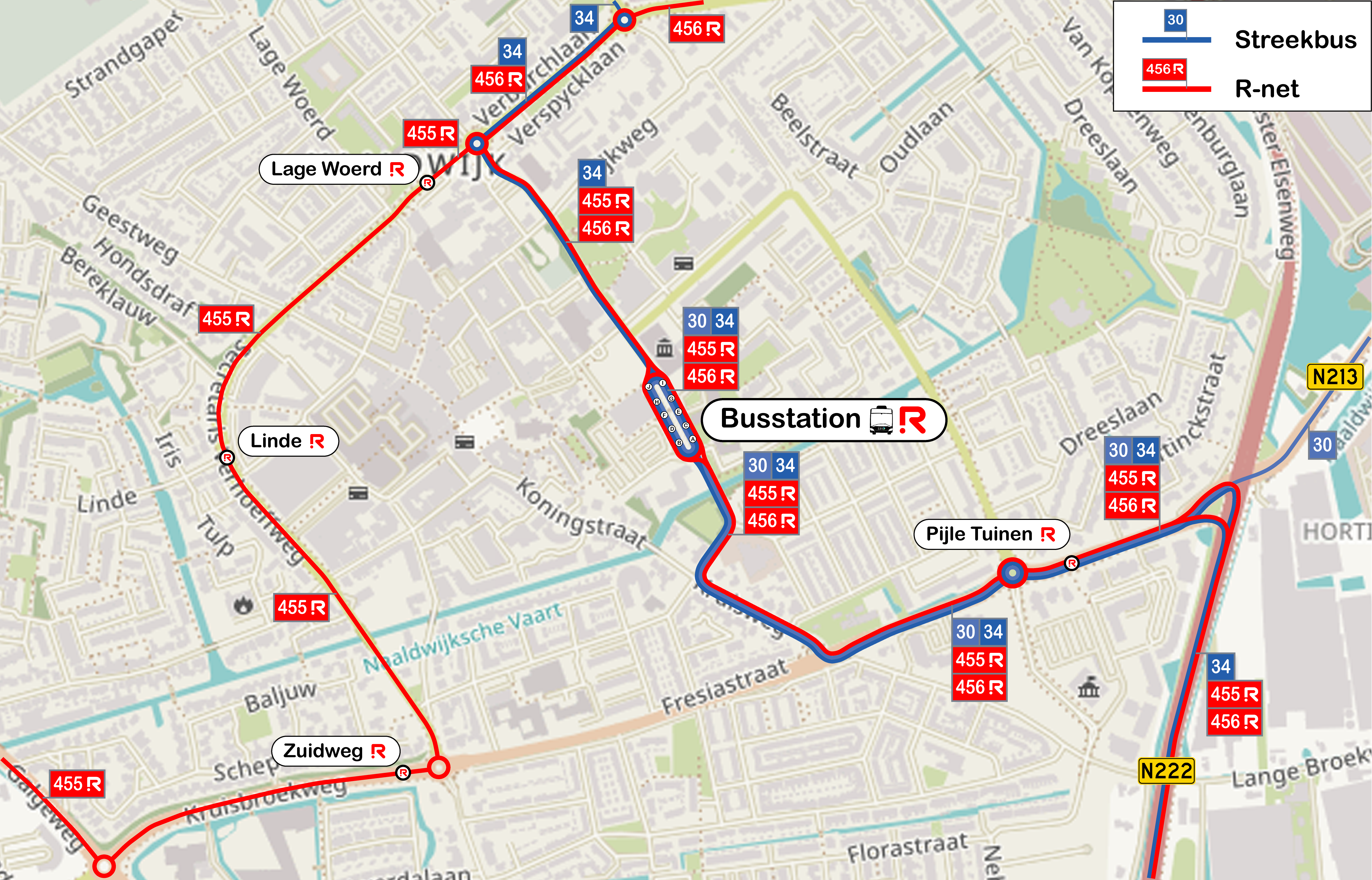 This is the area surrounding the public transport node leyenburg.